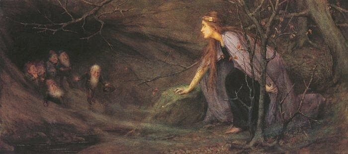 Once Upon A Time